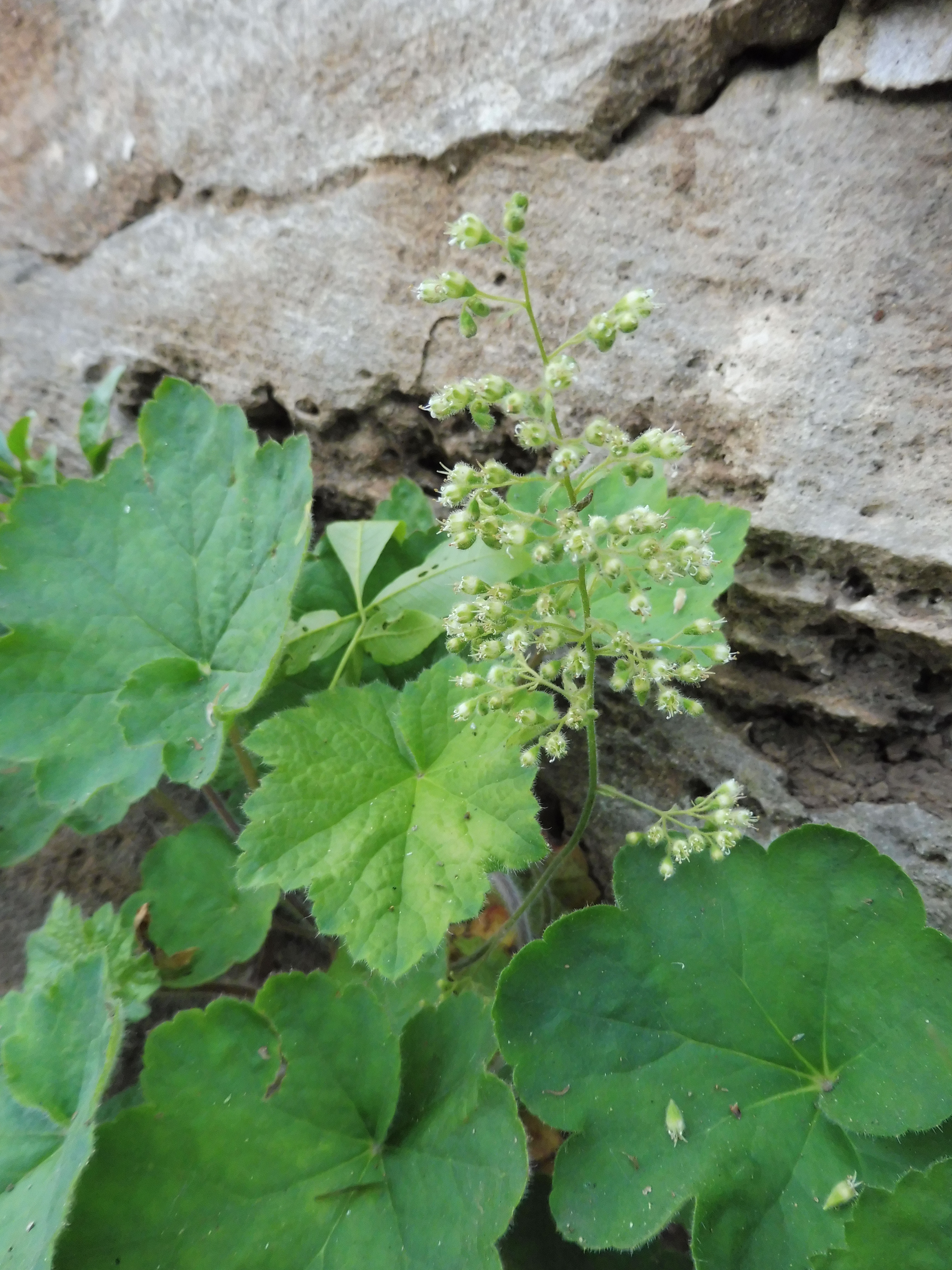 Heuchera villosa var. macrorhiza. Limestone cliff of the Cumberland River, Montgomery County, Tennessee